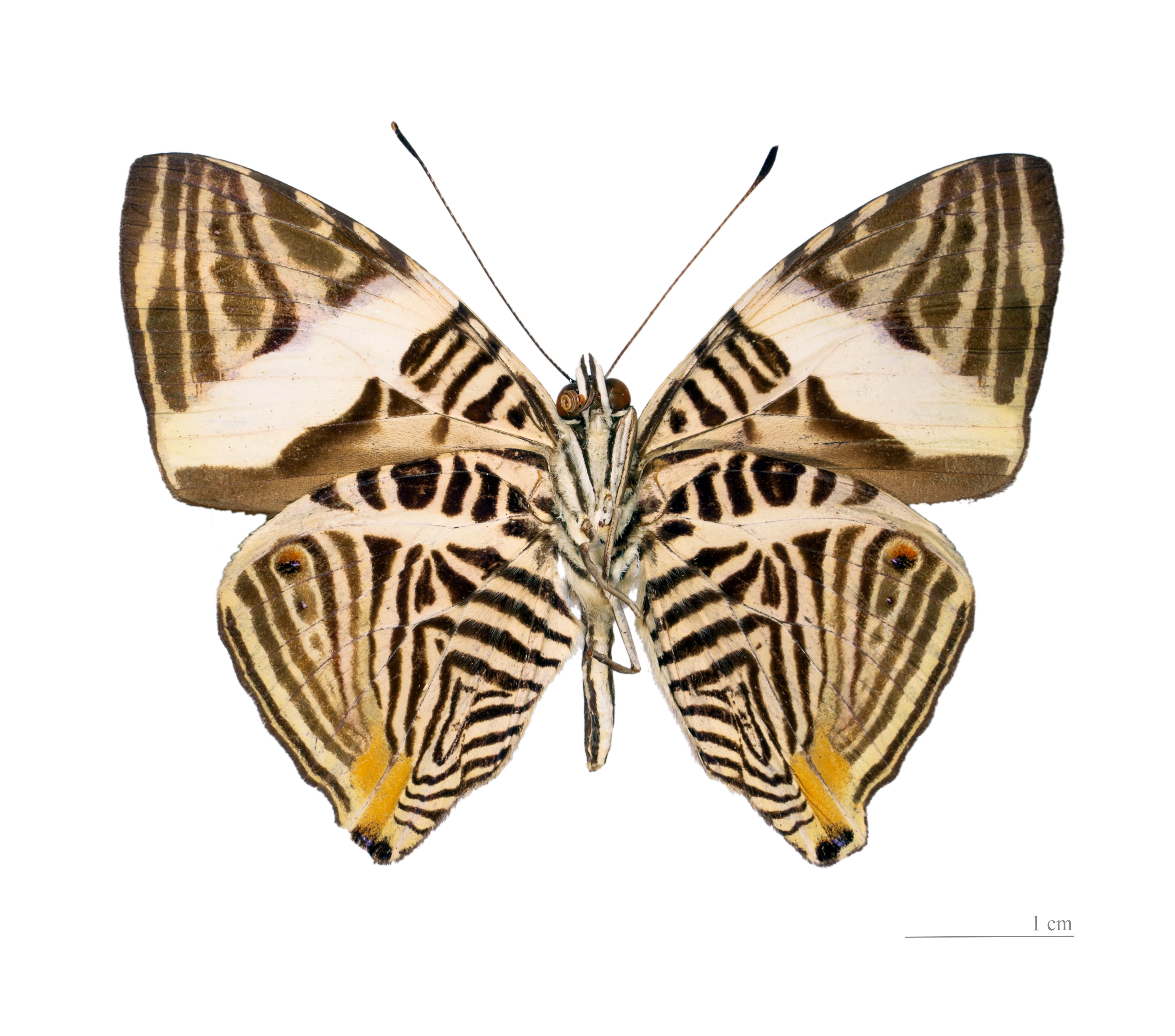 ♂ - △ Ventral side Locality : Lac Rorota, Montjoly, French Guiana.